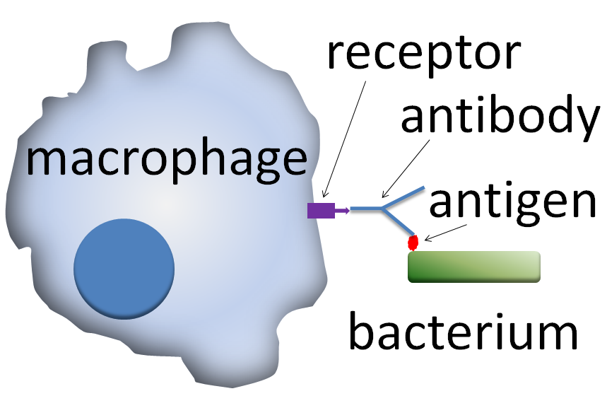 Action of opsonins